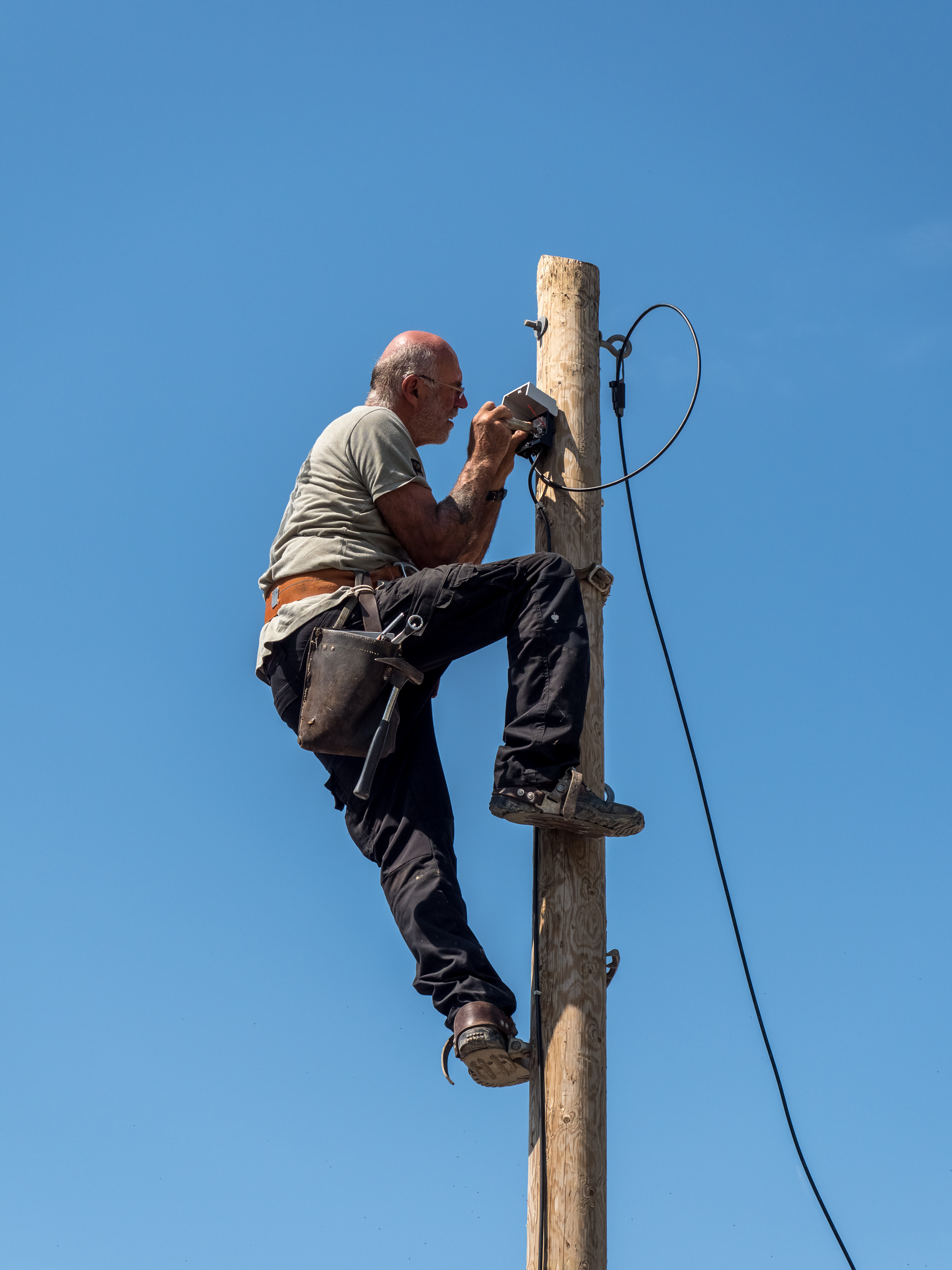 Electrical technician when connecting a cable on a cable pole, Bavaria (Germany)